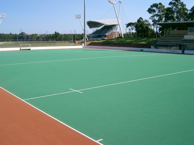 Sydney Olympic Park Hockey Centre